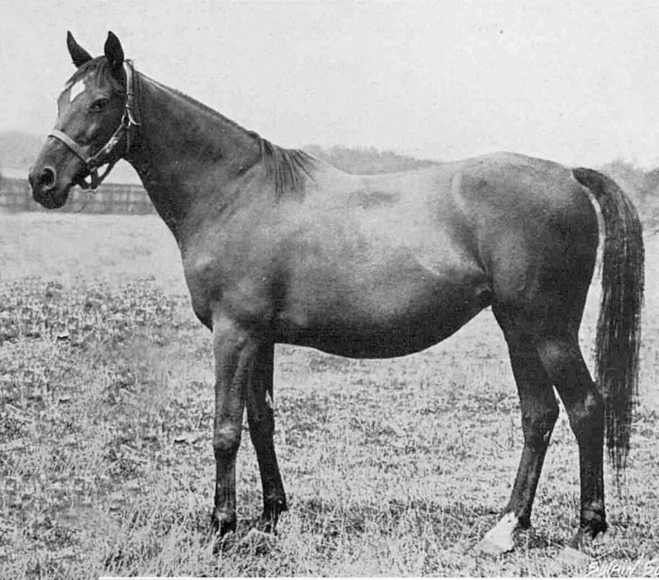 La Roche, winner of the 1900 Epsom Oaks, at Welbeck Abbey Stud in 1913.